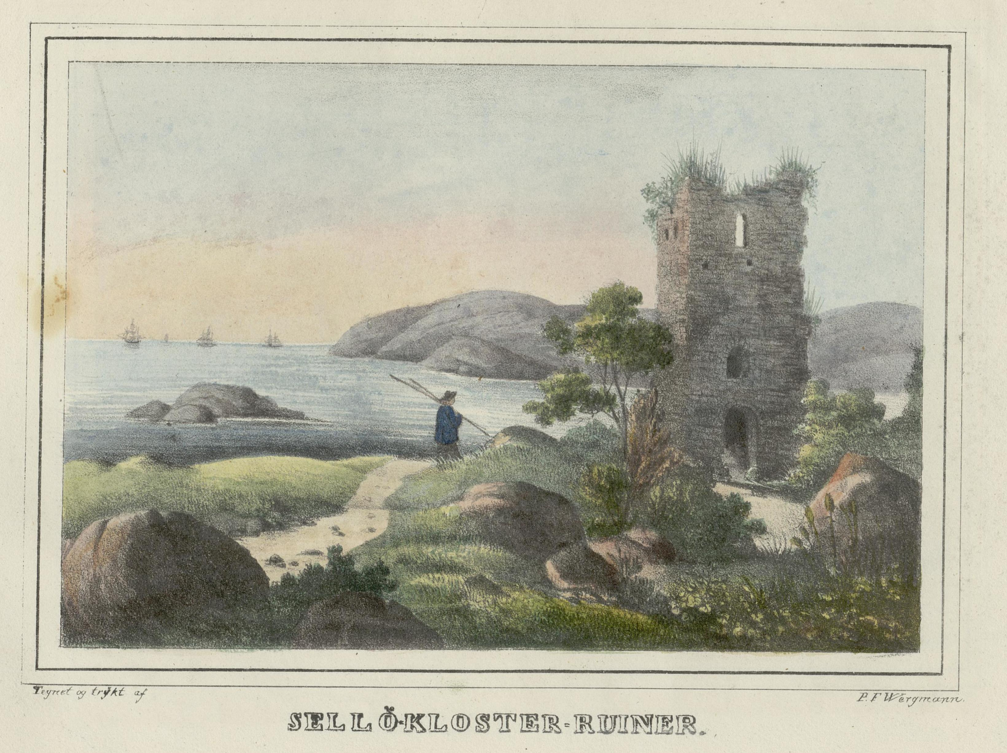 Illustration from the book "Norsk Prospect-Samling" by Wergmann, P.F. and published by P.F. Wergmann (no, 1833-1836)